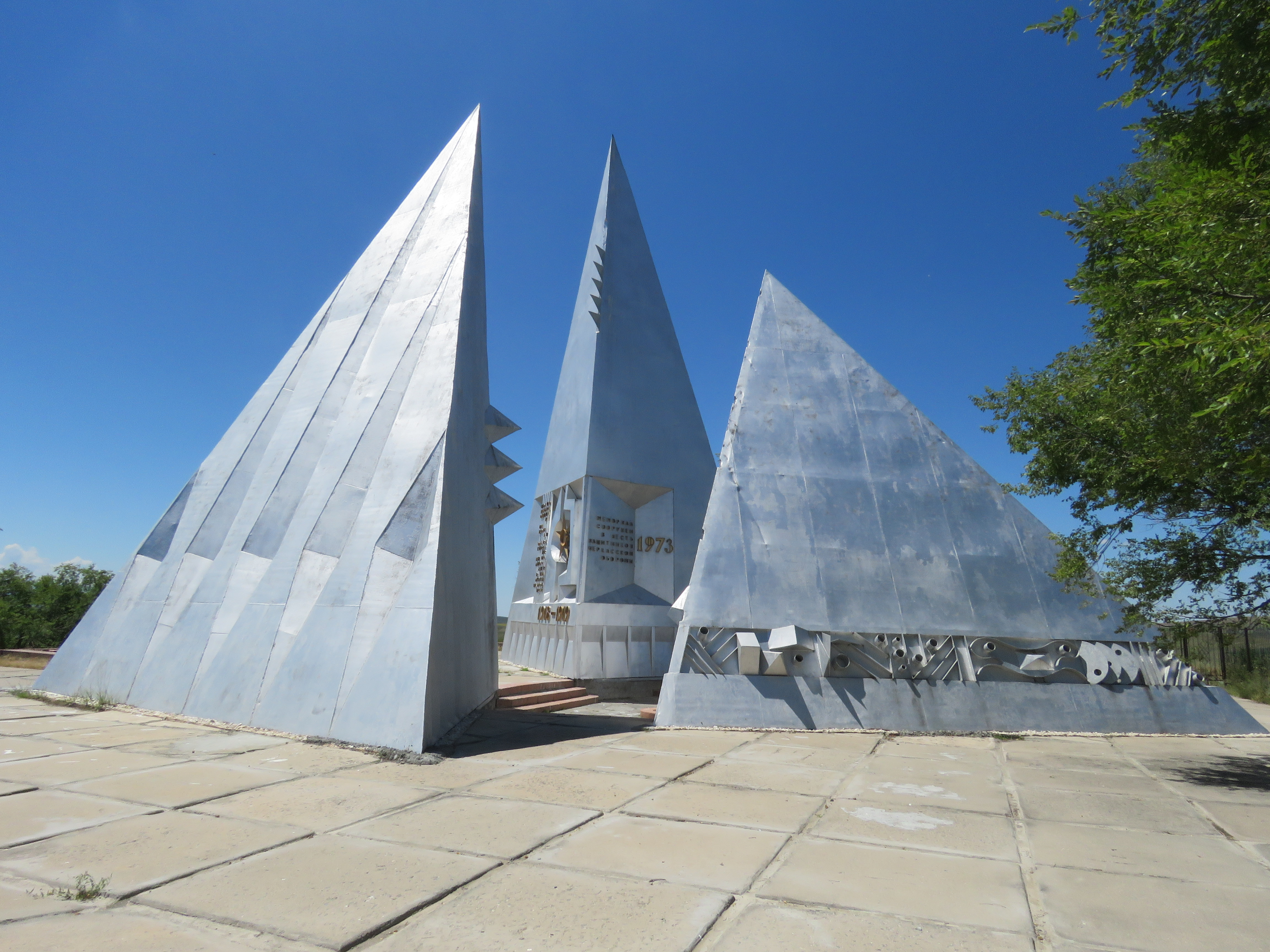 Cherkassk Defence Memorial, Cherkassk, Sarkand District, Almaty province, Kazakhstan